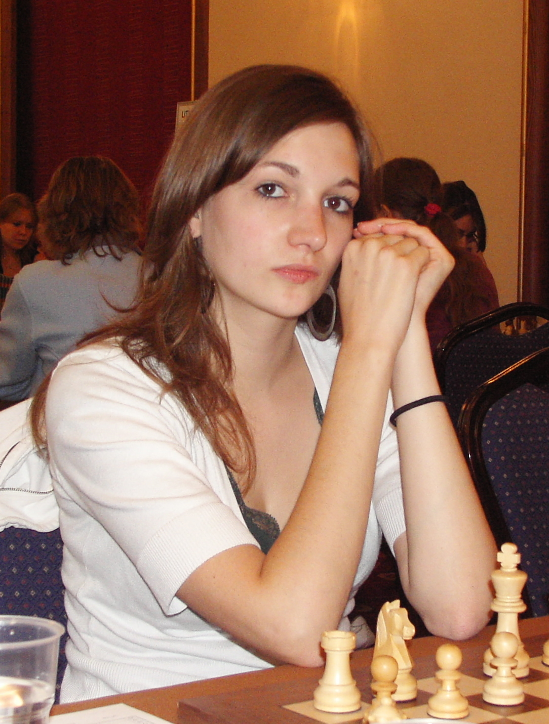 Monika Seps (Switzerland), Heraklion 2007